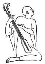 Line drawing of an ancient Egyptian guitar.